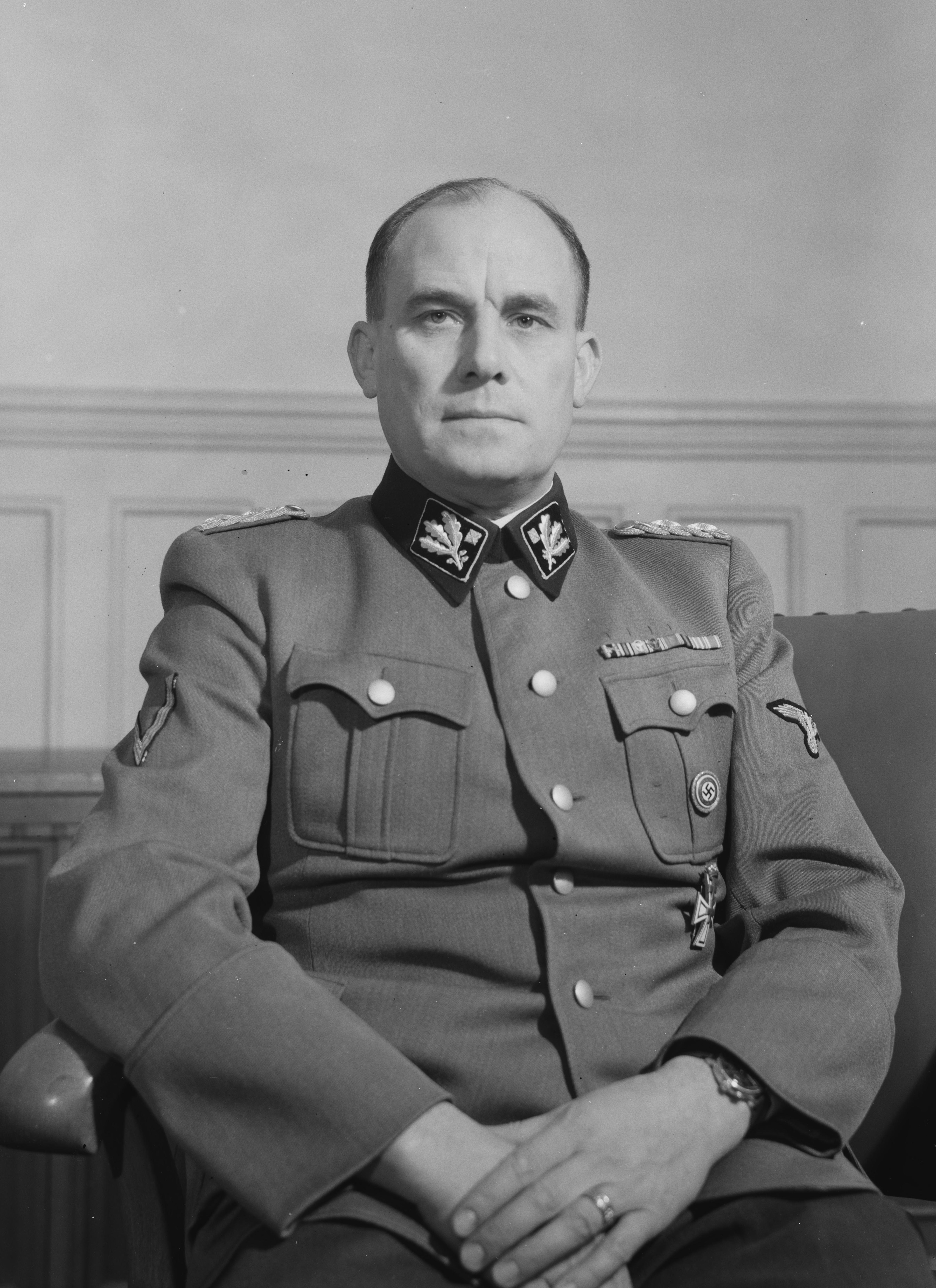 Wilhelm Rediess 1941. Rediess (10 October 1900 – 8 May 1945) was SS-Obergruppenführer and Police Leader during the German occupation of Norway in the Second World War. He was also the commander of all SS troops stationed in occupied Norway, assuming command on 22 June 1940 until his death in 1945. Rediess' SS uniform has the rank insignia of a SS-Obergruppenführer, the Honour Chevron for the Old Guard (Ehrenwinkel der Alten Kämpfer), National Emblem (the Nazi Germany's Imperial Eagle in SS design, SS Hoheitszeichen, Ärmeladler) and is decorated with the Golden Party Badge (Goldenes Parteiabzeichen) as well as the Danzig Cross (Danziger Kreuz).